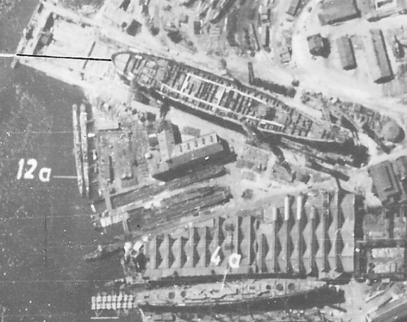 Luftwaffe aerial reconnaissance photo of the Baltic Shipyard, Leningrad, showing a Sovietsky Soyuz-class battleship and a Chapayev-class cruiser under construction